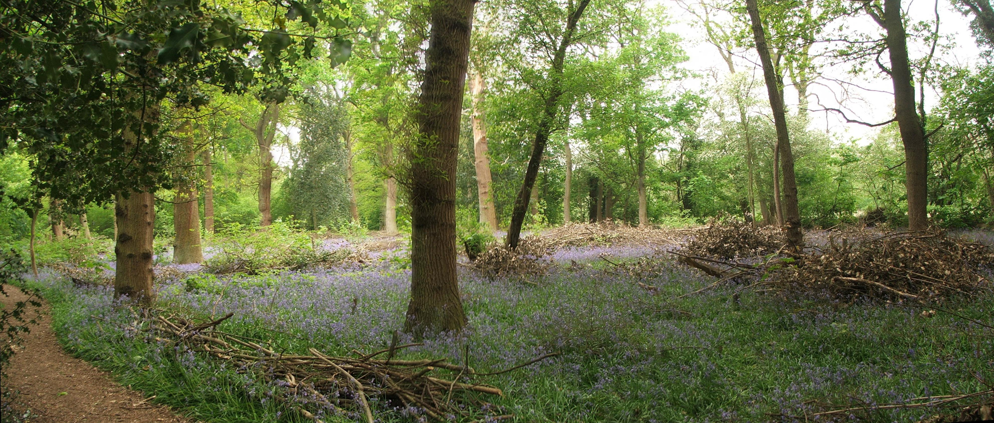 Taken By Myself, Timothy Davis